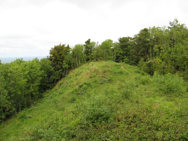 Castell Cawr The forest has been cut back here to reveal the sizeable main rampart of the fine hill-fort that occupies this excellent defensive position on top of the cliff above Abergele. The main rampart secures the western side of the hilltop and there are many other ditches partly hidden in the trees.